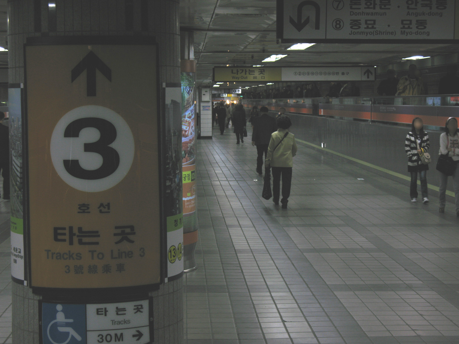 Seoul Metro Jongno 3-ga Station Passageway.